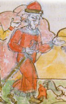 Prince Oleg of Novgorod in Radziwiłł Chronicle